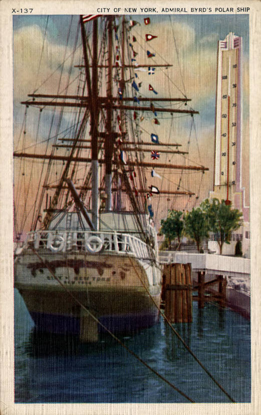 City Of New York, Admiral Byrd's Polar Ship, in the background the 200 Ft. Havoline Thermometer